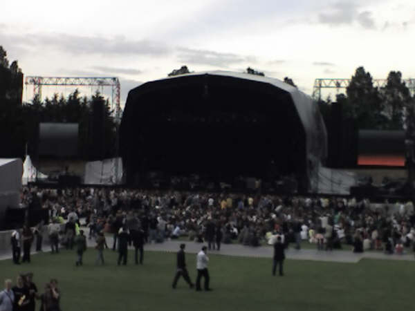 Image of Meadowbank Stadium, prior to a performance by Radiohead in 2006